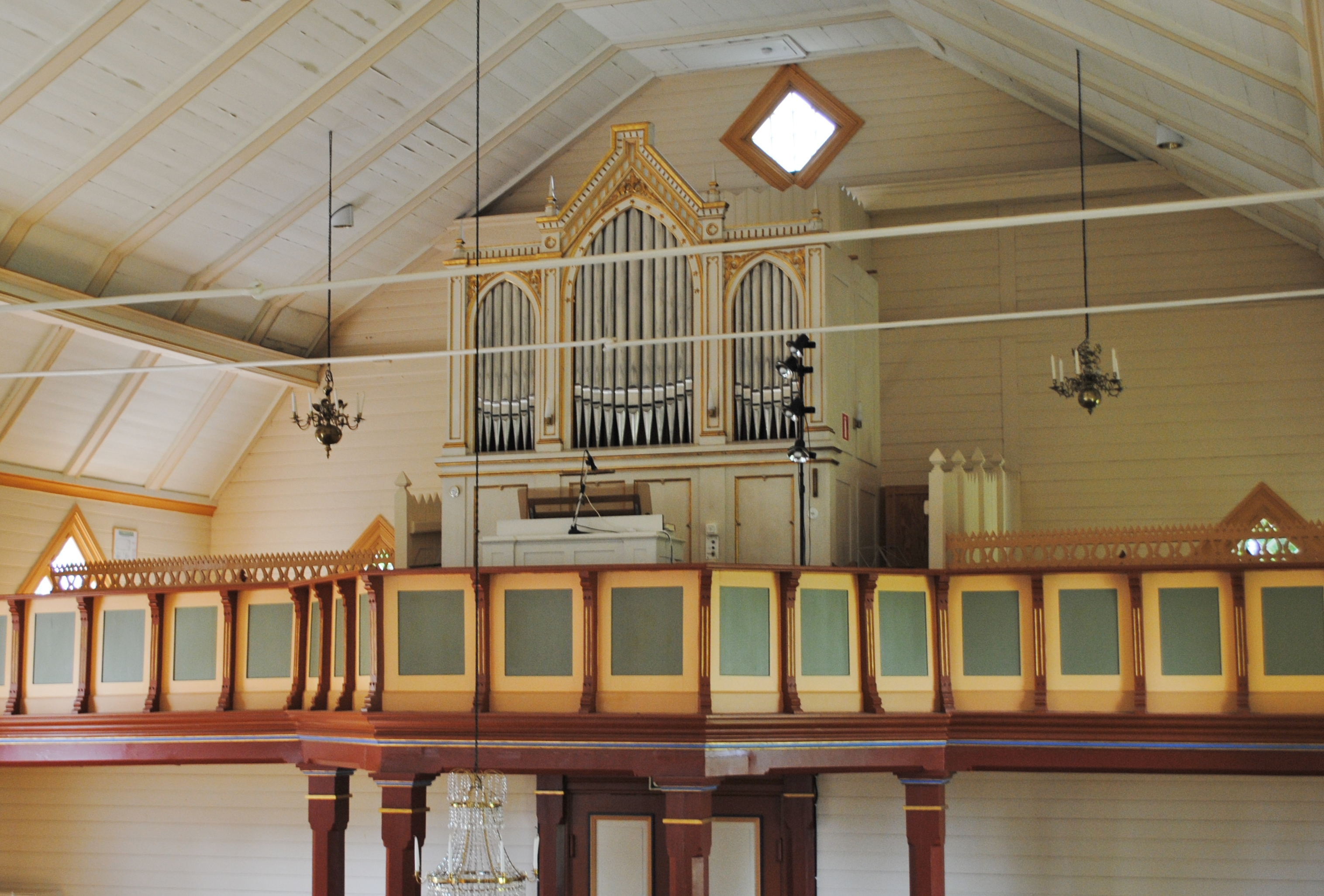 Oskars Church,Nybro.Organ